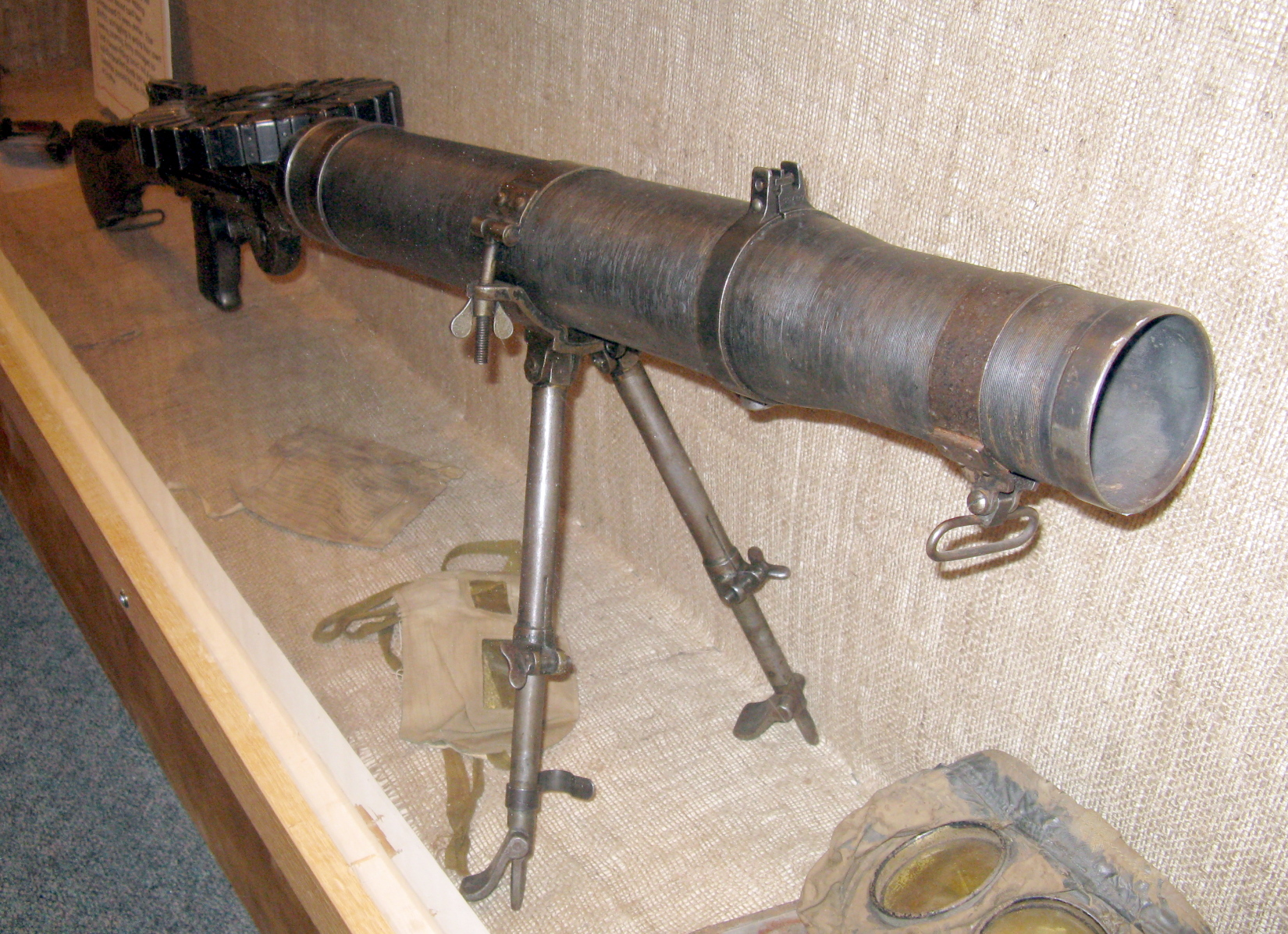 Lewis gun displayed in Elgin Military Museum in St. Thomas, Ontario